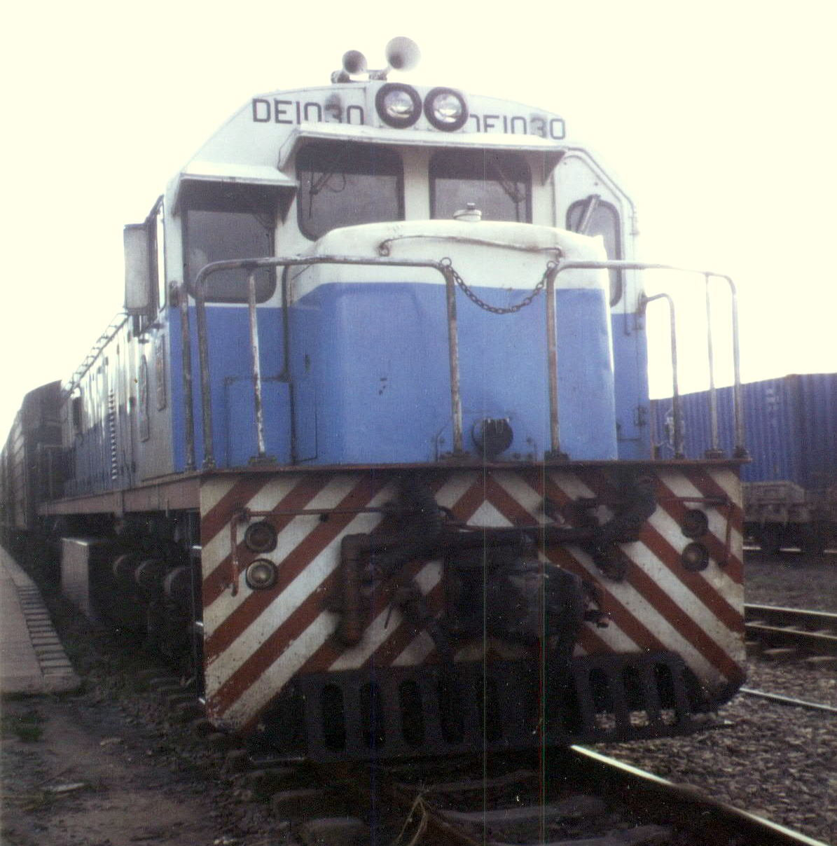 General Electric U30C locomotive of the Tanzania Zambia Railway authority in Mlimba station, Tanzania, with the twice weekly express train from Dar es Salaam to Kapiri Poshi. The GE U30C made by Krupp Essen is an uprated GE U26C, not to be confused with the domestic USA GE U30C of the 1970s.